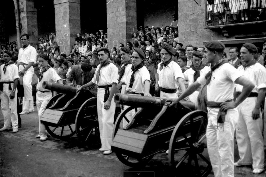 Anzuola, local feast, photo by Indalecio Ojanguren, 1942